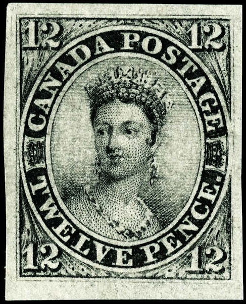 Canadian Black Empress twelve pence black stamp issued in 1851 - This stamp was sold in January 2011 for US $425,000 by Spink Shreve Galleries Dallas TX